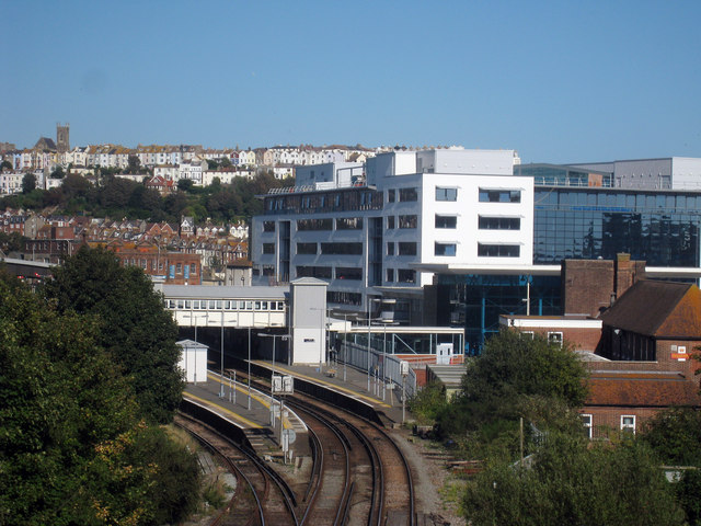 Hastings University. New Hastings university building rear right of station, due for completion by spring 2010. Also see view from other bridge 1360964